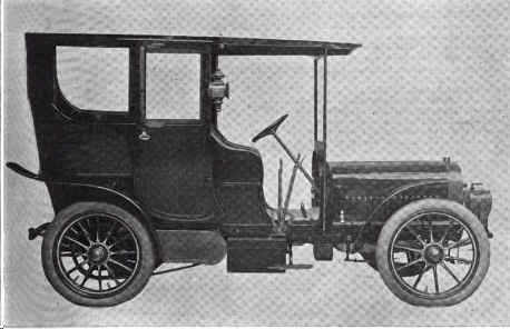 1905 Woods Gasoline Landaulet